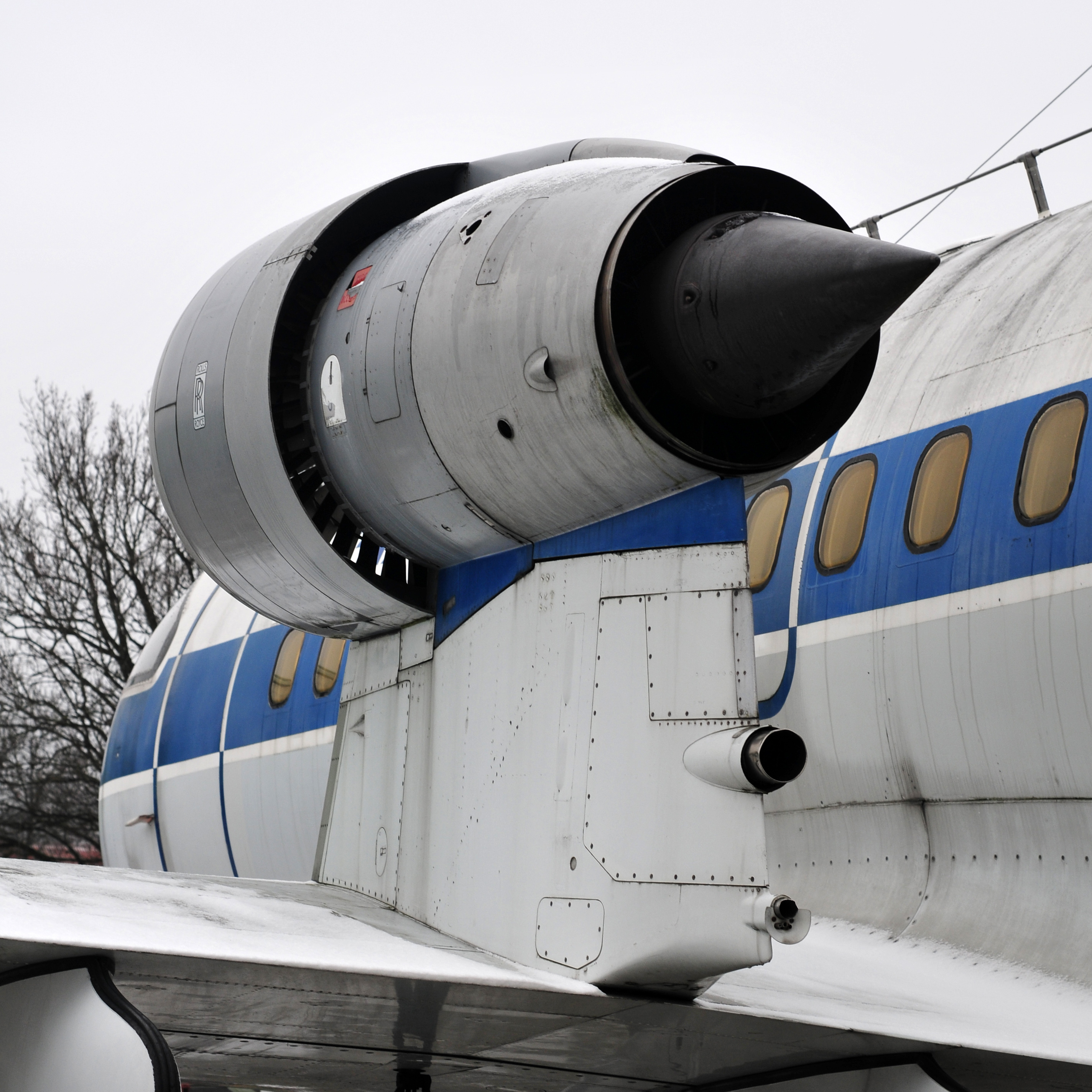 Photograph taken at the Aeronauticum in Nordholz, district of Cuxhaven, Lower Saxony (Germany)